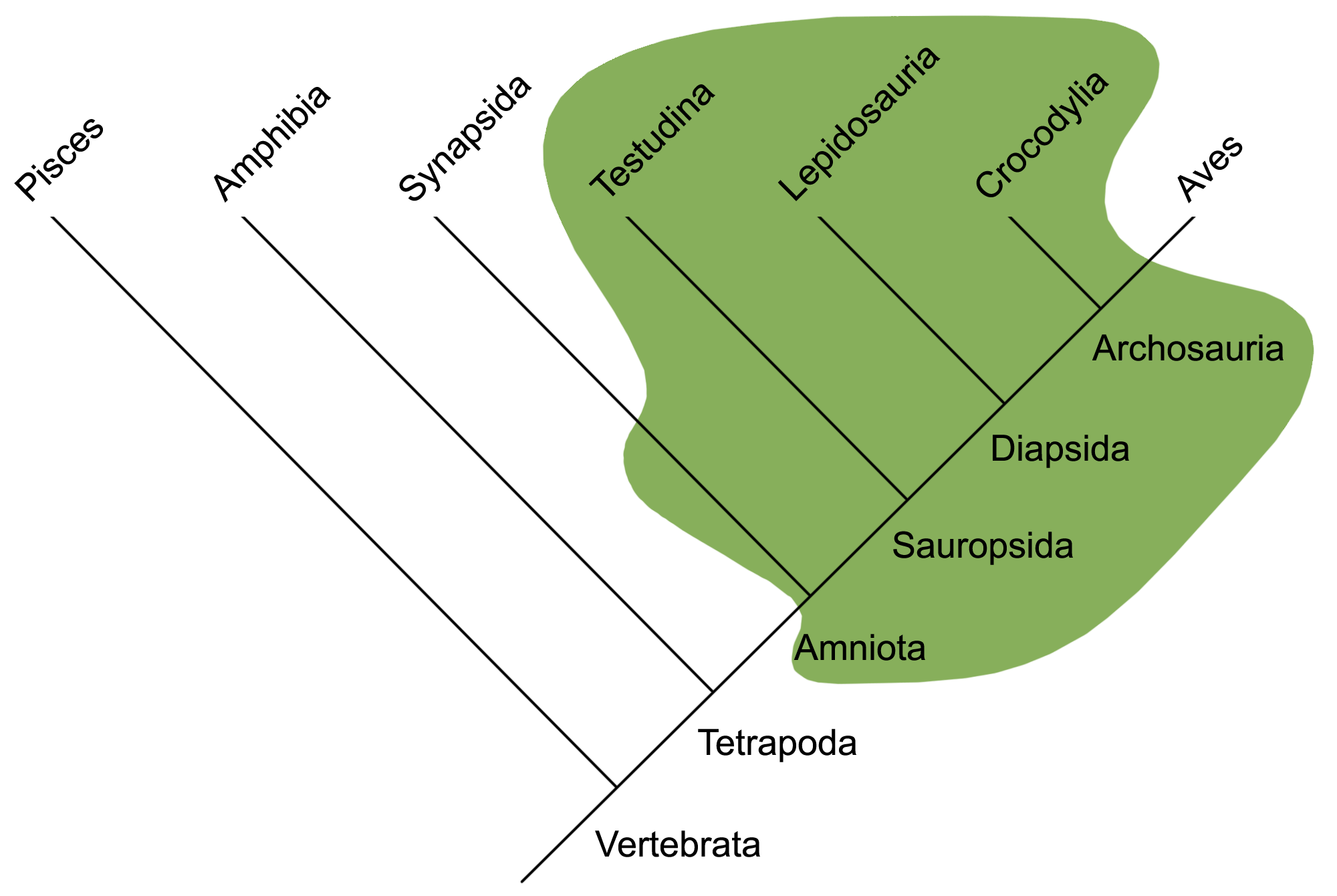 Simple diagram showing the relationship between cladistic and traditional classification of the class Reptilia. The traditional definition of Reptiles is a paraphyletic assemblage compromising all amniote lineages, with the exception of birds and mammalian synapsids. Based on the file File:Paraphyletic.svg.